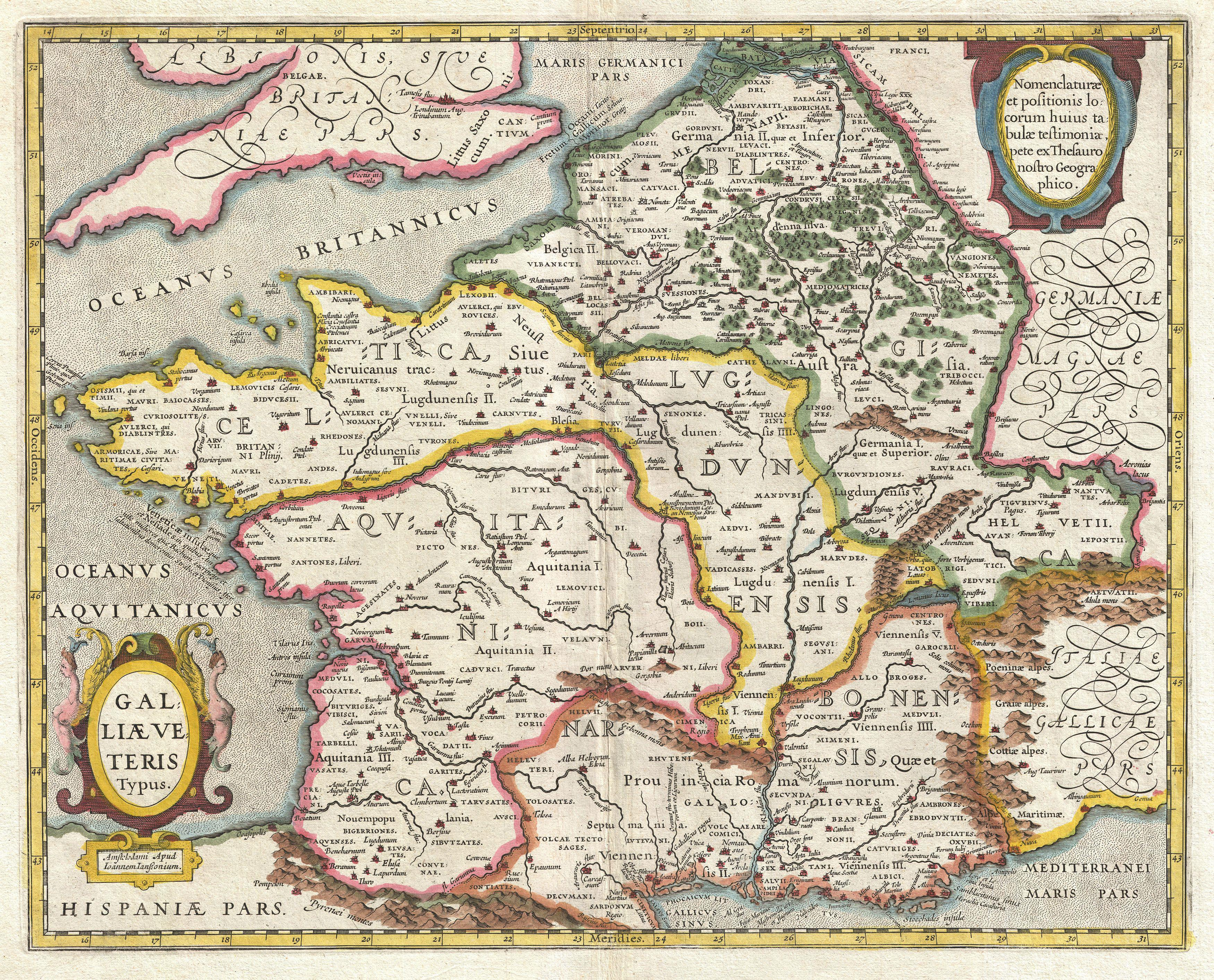 This is a remarkable example of Jan Jansson's 1657 mapping of France or Gaul in antiquity. Cartographically this map exhibits heavy influence from a very similar map of the same name published by A. Ortelius in his 1597 Parergon . Based on Greek and Roman sources including Pliny, Strabo, Virgil, Ceasar, and others. A decorative title cartouche depicting curious winged women with exceptionally long necks (harpies?) appears in the lower left quadrant. This remarkable map was published in volume six, the Orbis Antiquus , of Jan Jansson's Novus Atlas .